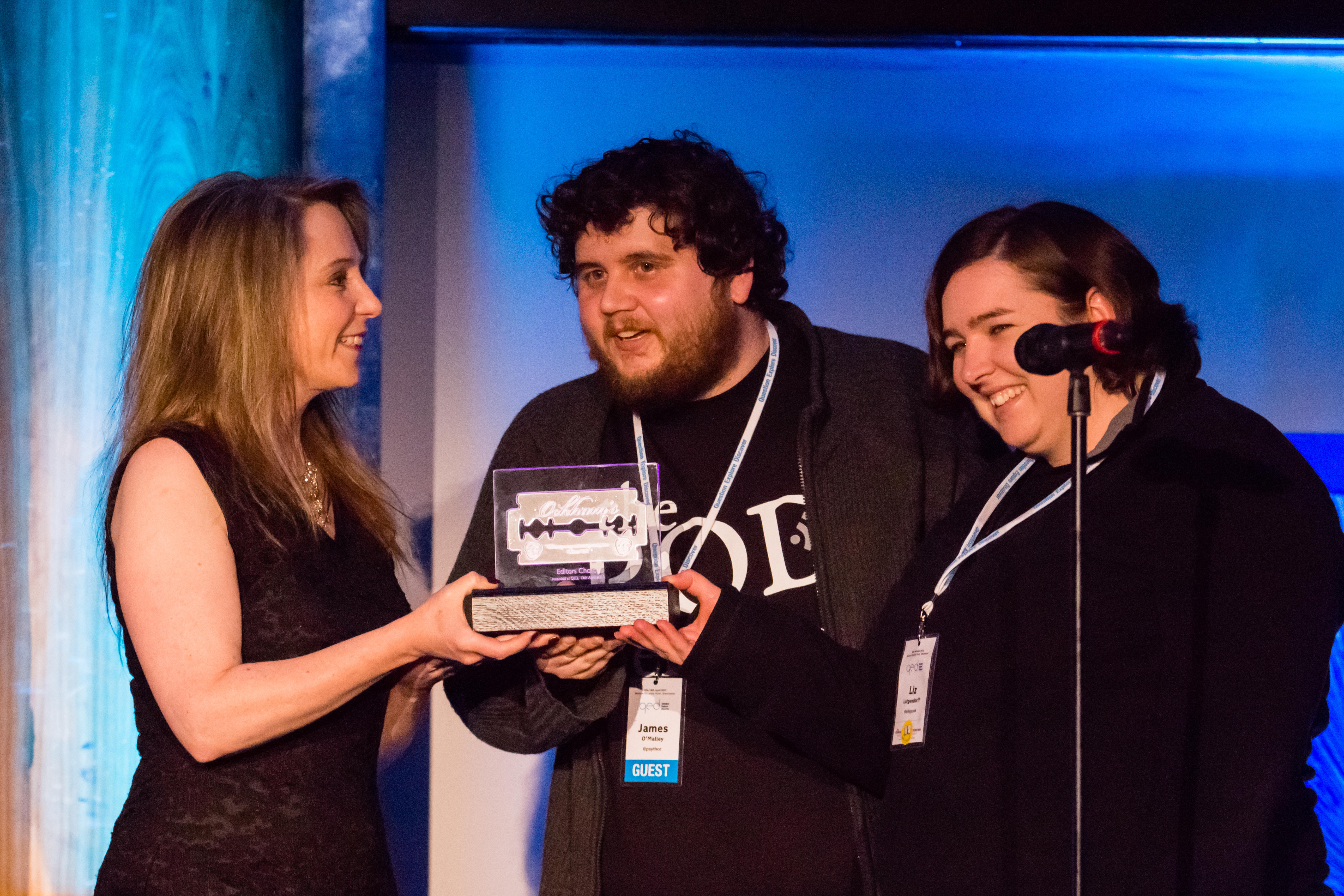 Deborah Hyde presents James O'Malley and Liz Lutgendorff of The Pod Delusion with the Editors' Choice award at the Ockam Awards' Ceremony, held as part of QEDcon in the Mercure Hotel, Manchester, April 13 2013.